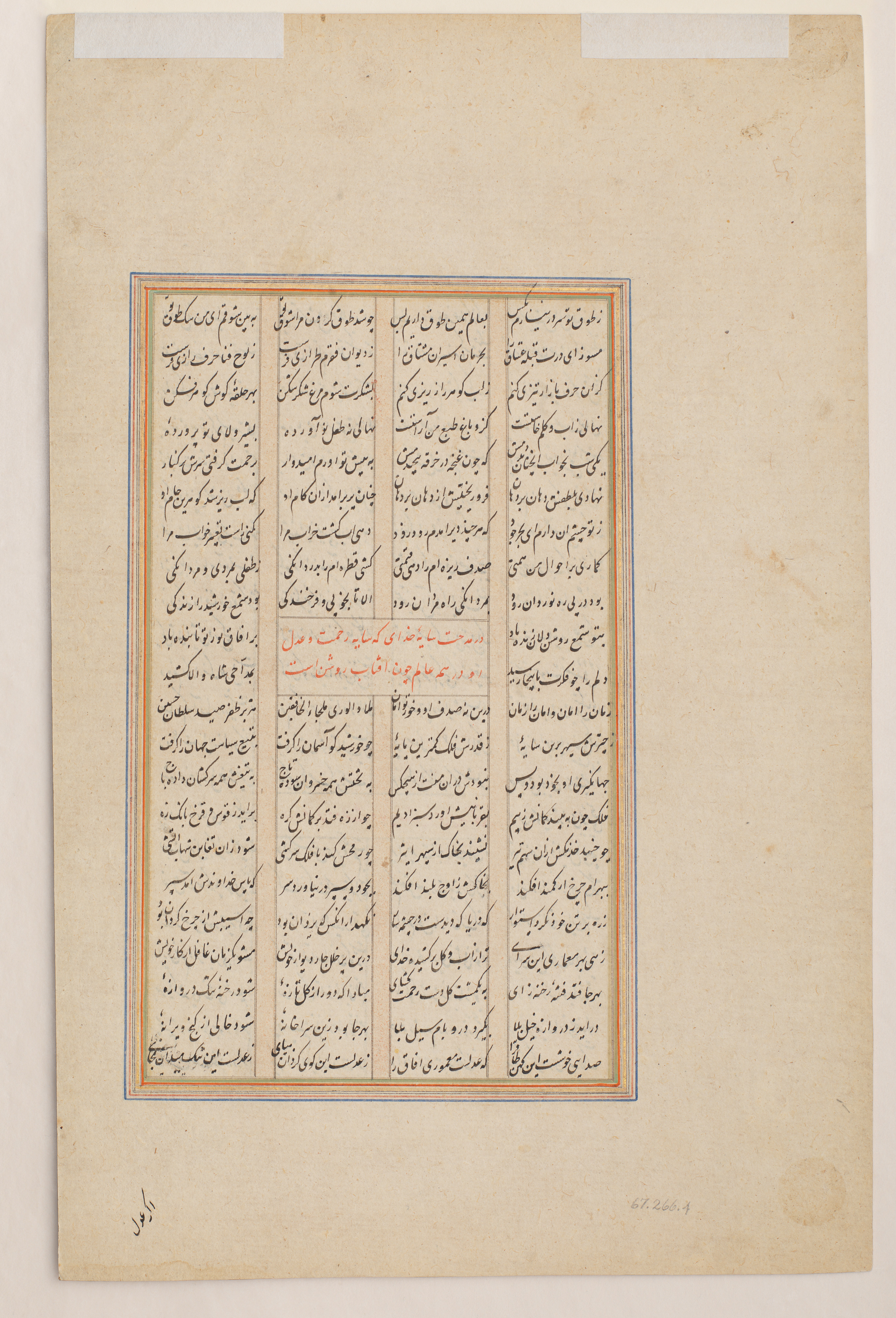 Folio from an illustrated manuscript; Codices